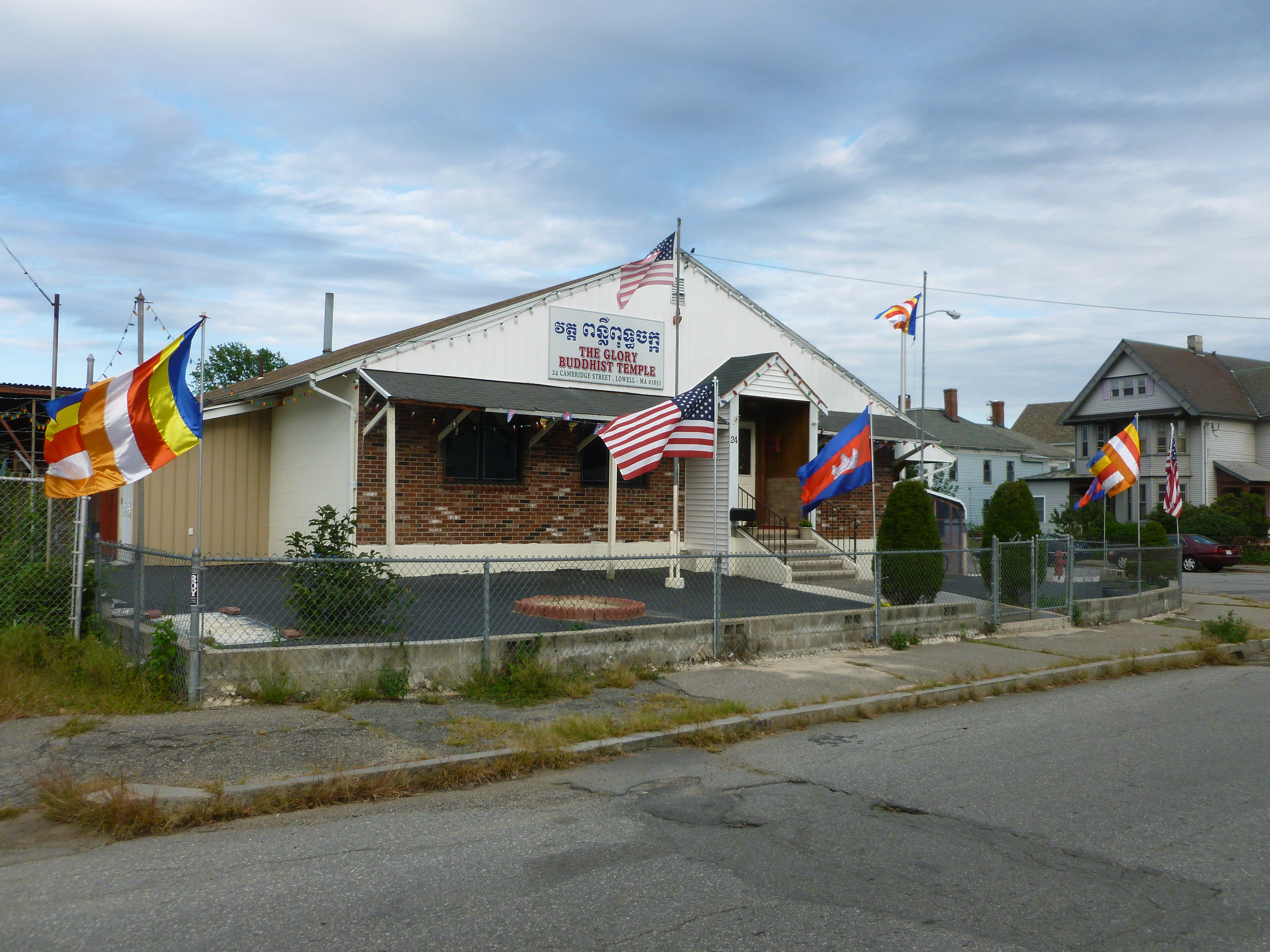 Glory Buddhist Temple, located at 24 Cambridge Street, Lowell, Massachusetts. Southwest (front) side of building shown.